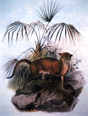 Catopuma badia or Pardofelis badia, Bay Cat